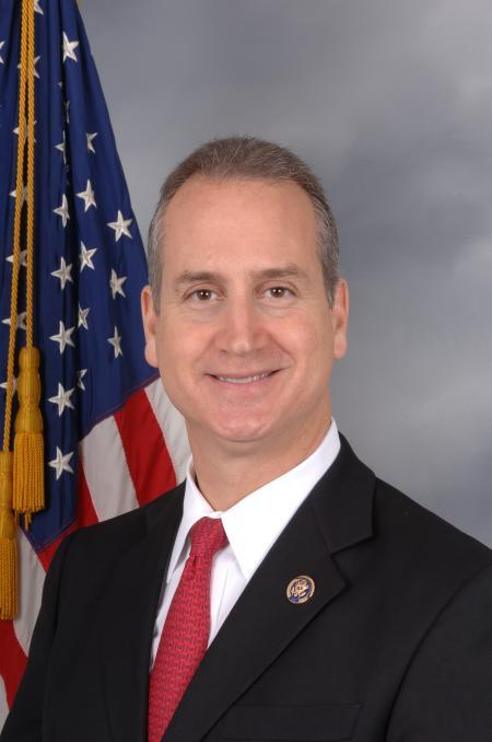 Mario Diaz-Balart, member of the United States House of Representatives